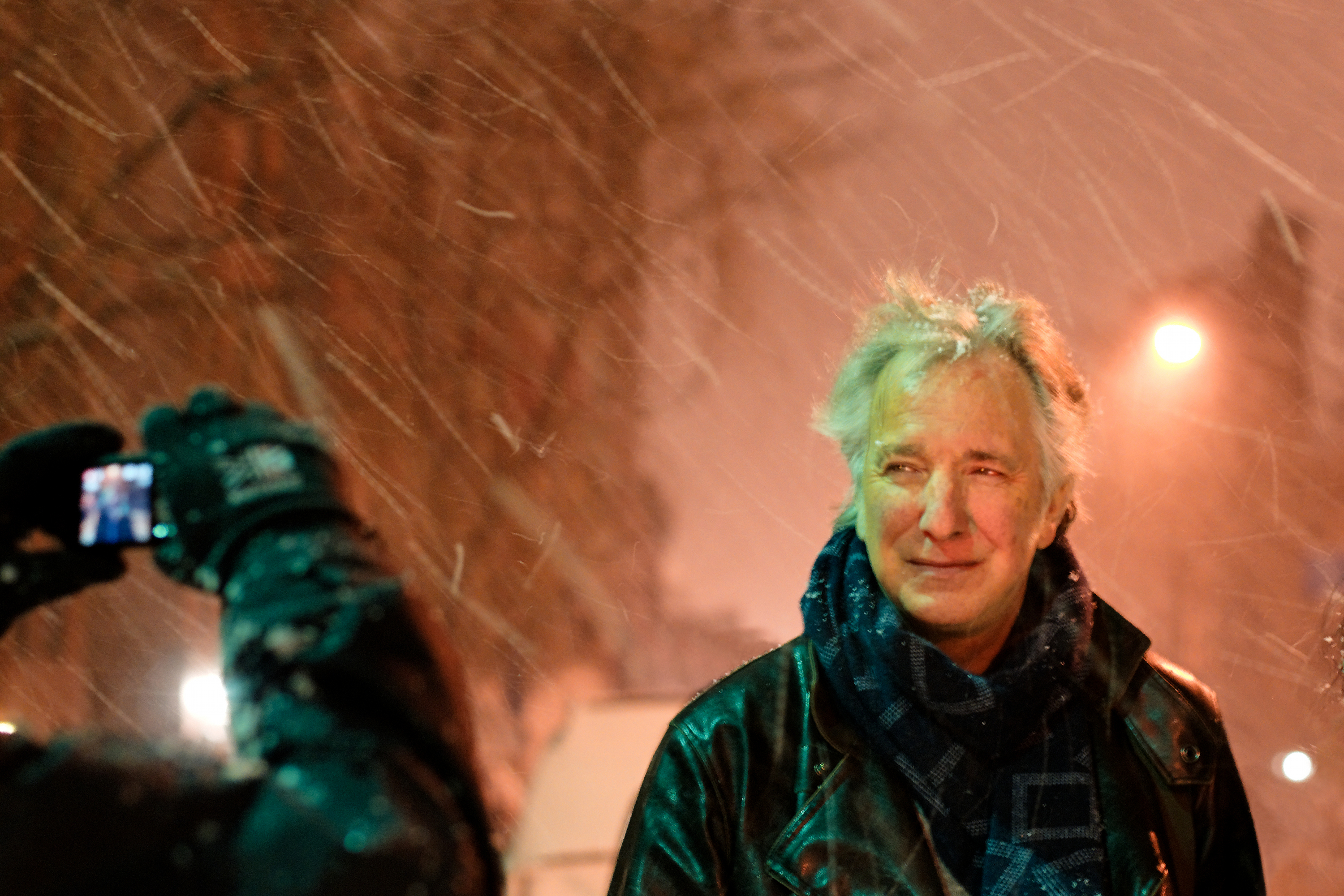 Alan Rickman posing for pictures at the stage door after a performance of Ibsen's John Gabriel Borkman at the Brooklyn Academy of Music.